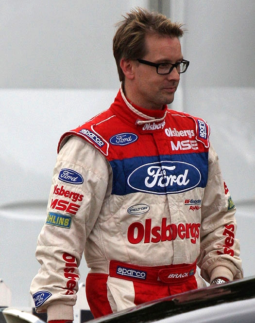 Kenny Bräck at the 2012 Goodwood Festival of Speed.